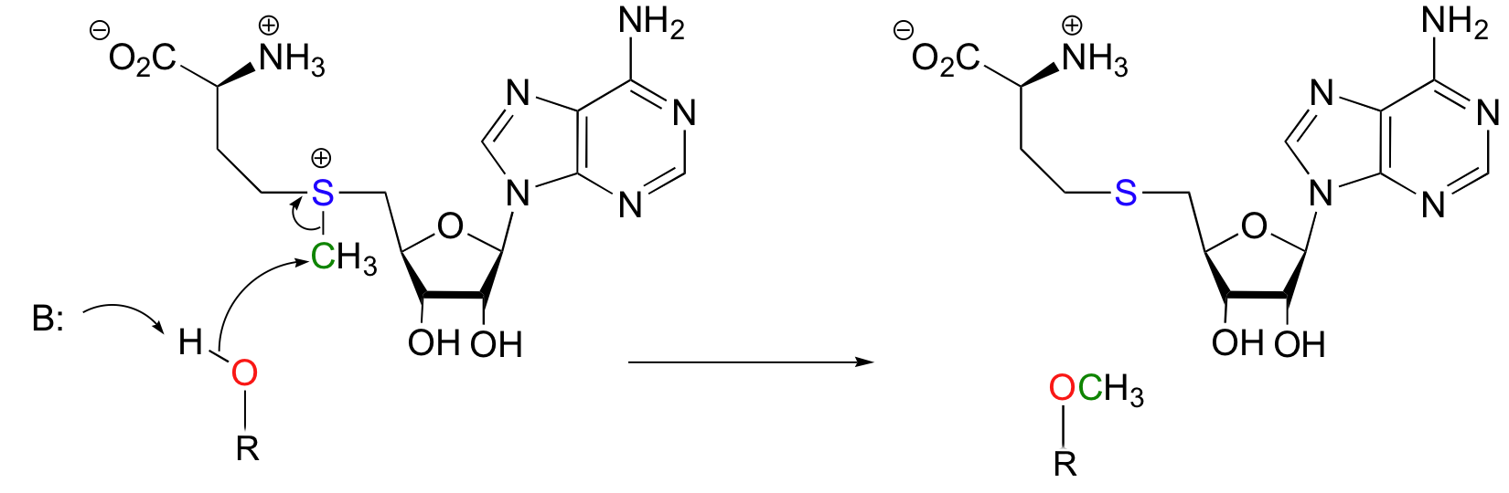 Mechanism of methyl transferase